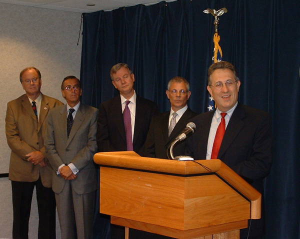 United States Assistant Secretary Wayne Announces U.S. Intent to Rejoin International Coffee Organization (effective 3 February 2005)